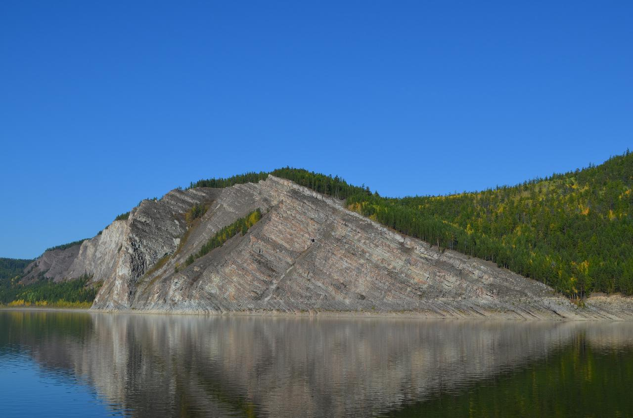 This photos are made during cruise Yakutsk — Lеnskiye Shchyoki, Lena Cheeks — Yakutsk (with arrival in Mirny), 05.09−17.09.2016